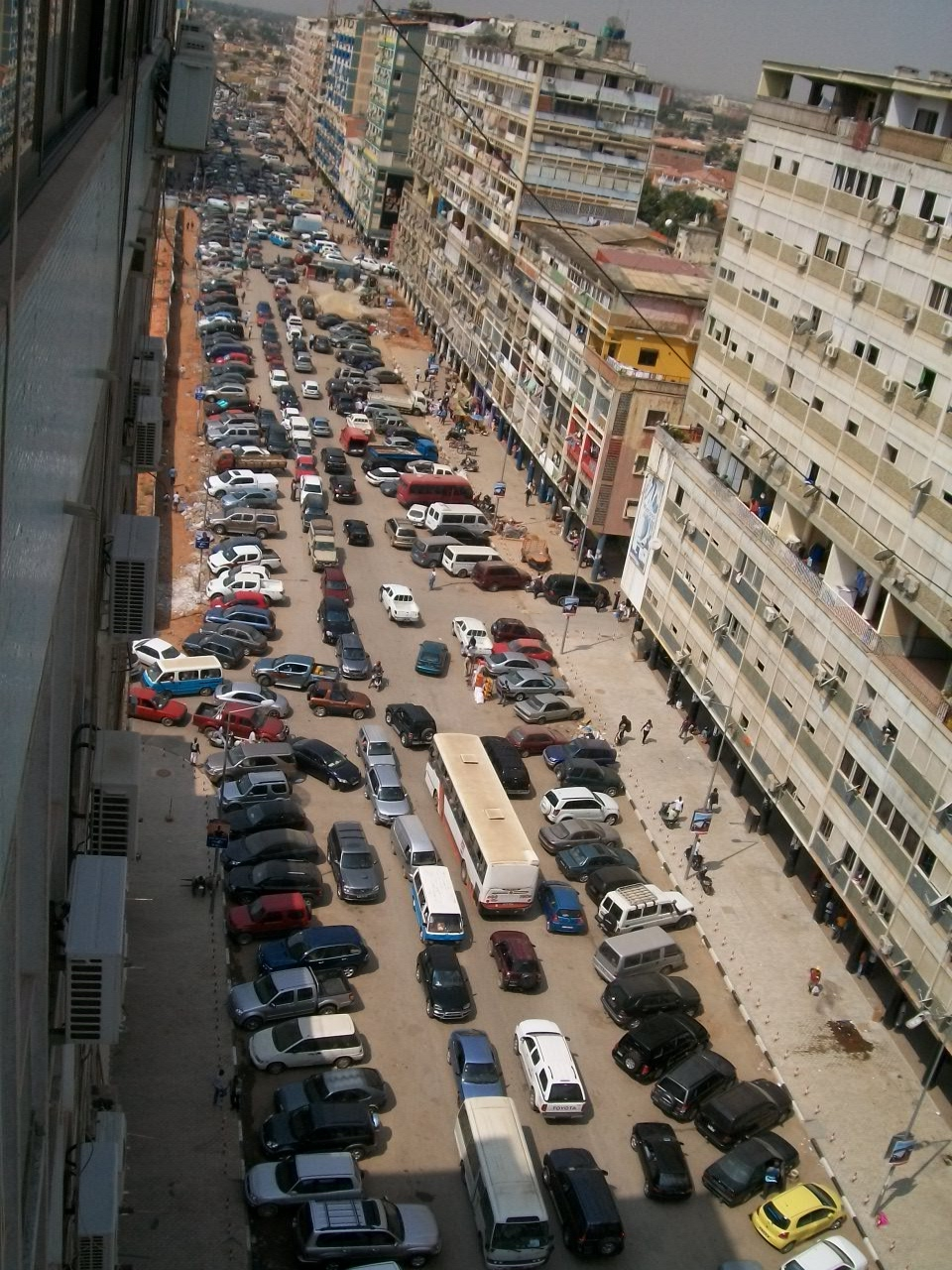 Traffic in Luanda, Avenida dos Combatentes